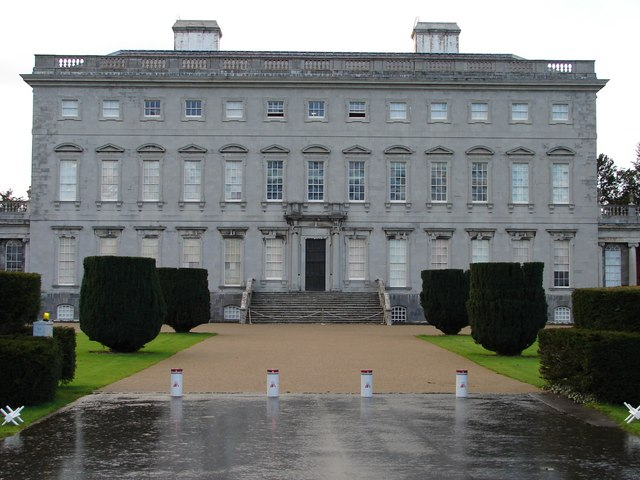 Front Elevation, Castletown House A wide-angle lens would have been handy!